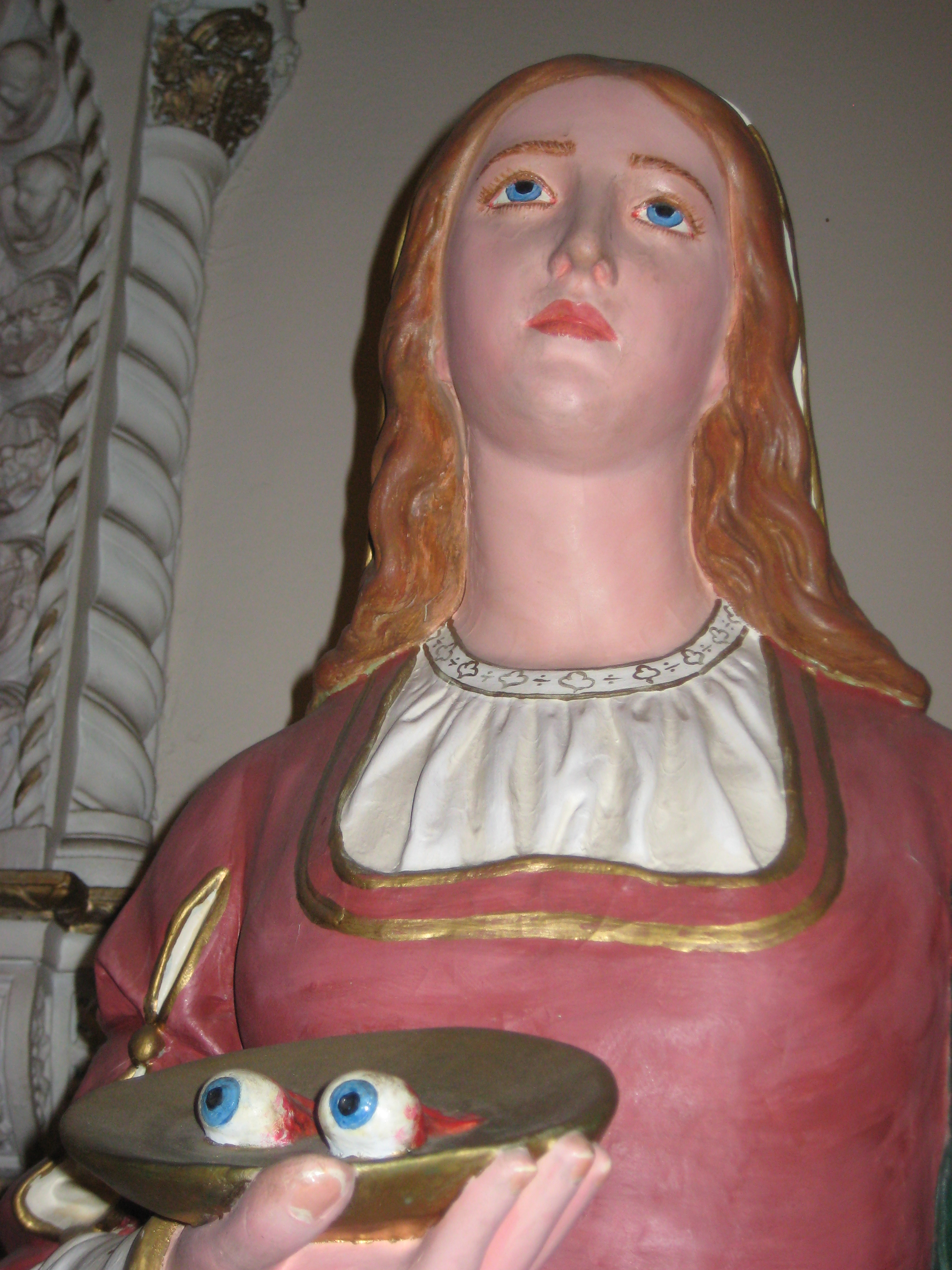 Statue of Santa Lucia at Saint Leonard of Port Maurice Church in the North End of Boston. January 2009 photo by John Stephen Dwyer